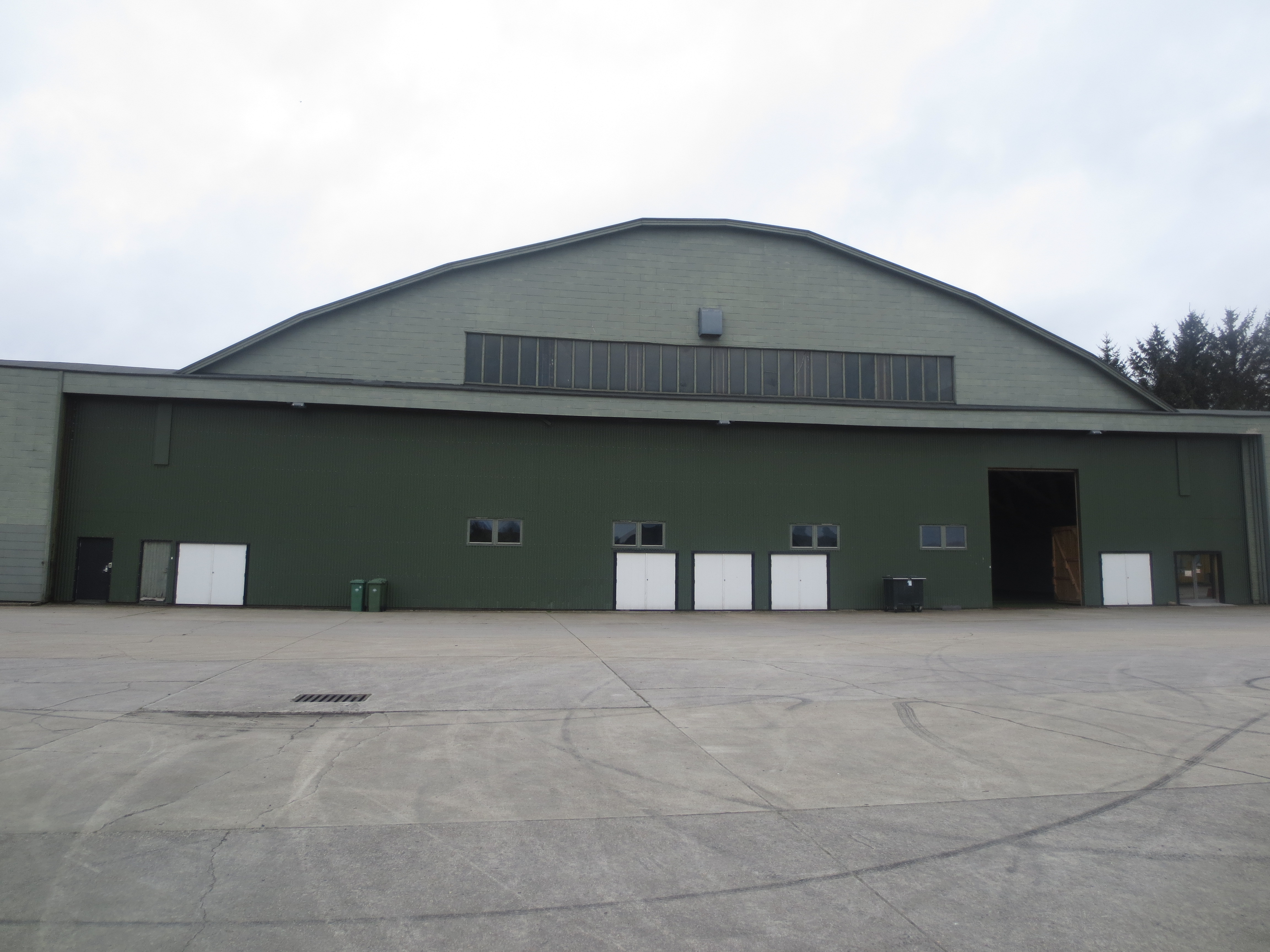 Lista former Airforce Station (flystasjon) in Farsund municipality, Norway